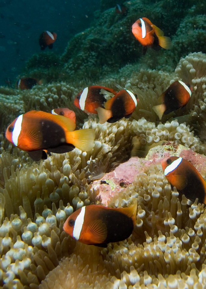 A colony of Cinnamon clownfish (Amphiprion melanopus) on the North coast of Timor-Leste.